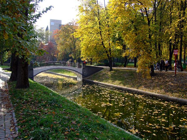 Moscow_park_Trubetsky